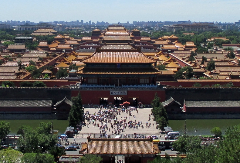 The Forbidden City in Beijing, China (photographed from Jing Shan).